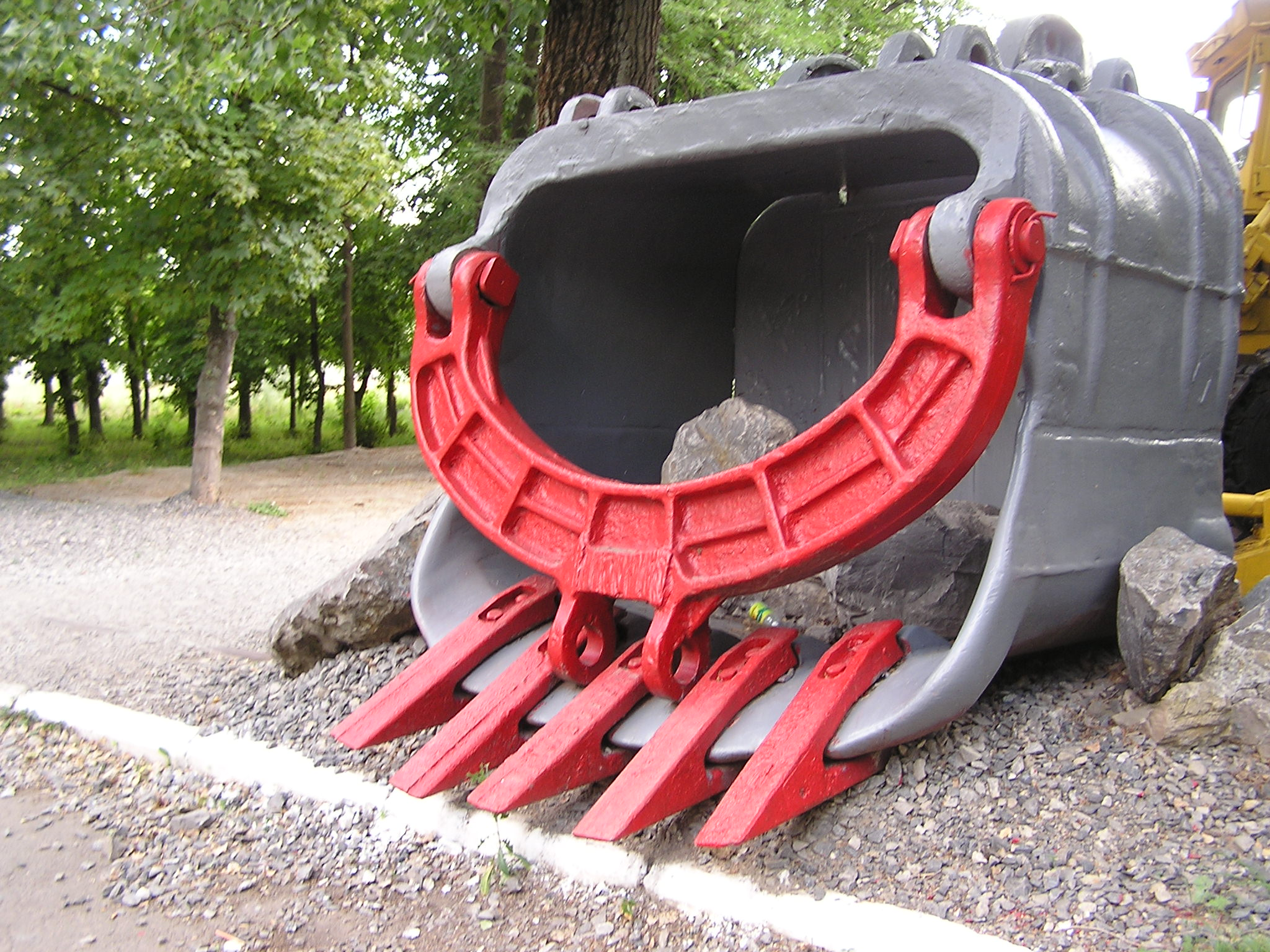 EKG-5 excavator's bucket, at Museum of Dokuchaevsk flux-dolomite сombined plant